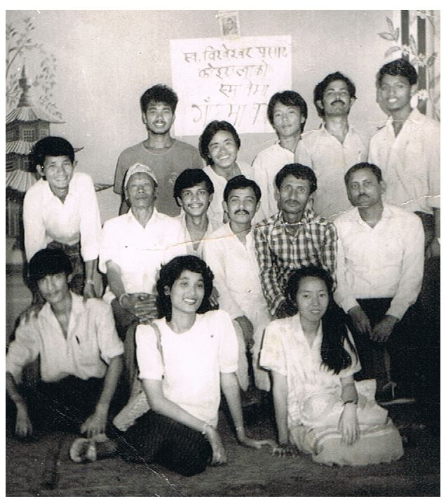 Dharane sahityakar haru 2043